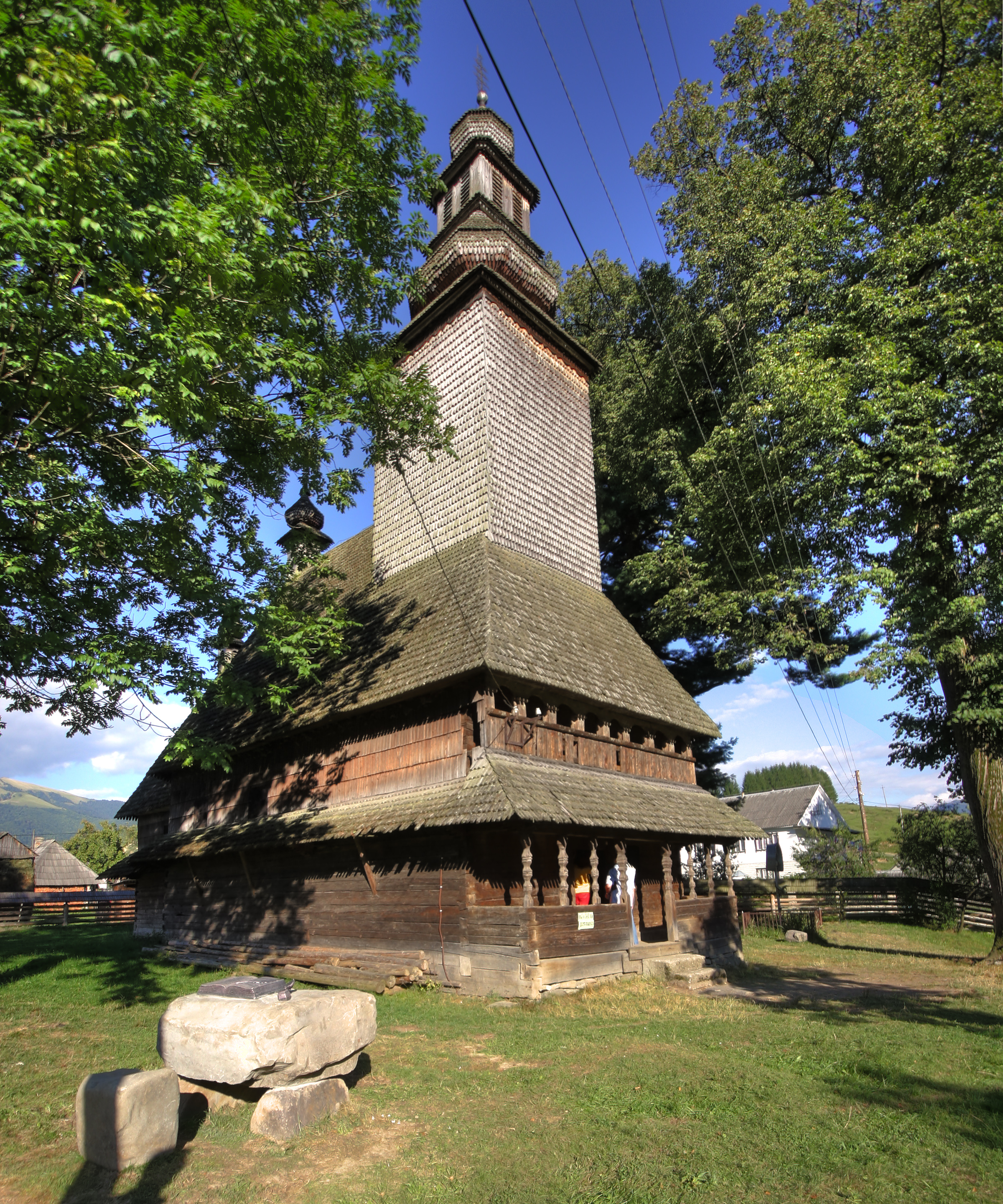 Church of the Holy Spirit, Kolochava Mizhhiria Raion, Zakarpattia Oblast, Ukraine